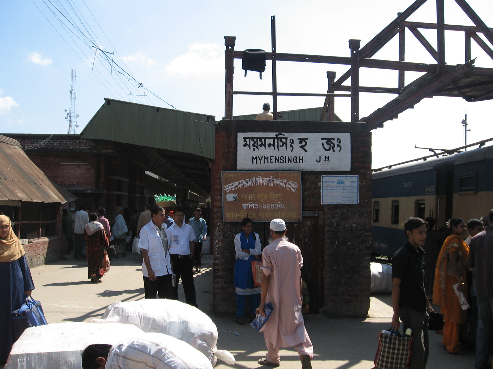 Mymensingh Junction Station